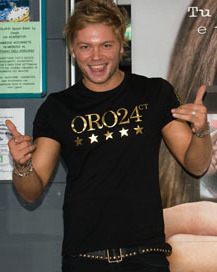 Davide Rossi